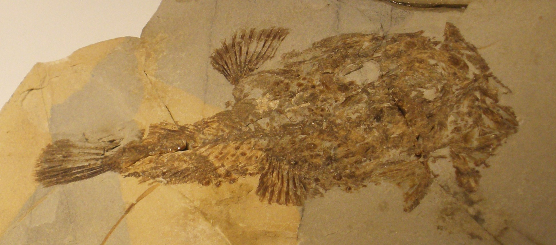 Fossil of Lophius brachysomus, an extinct fish